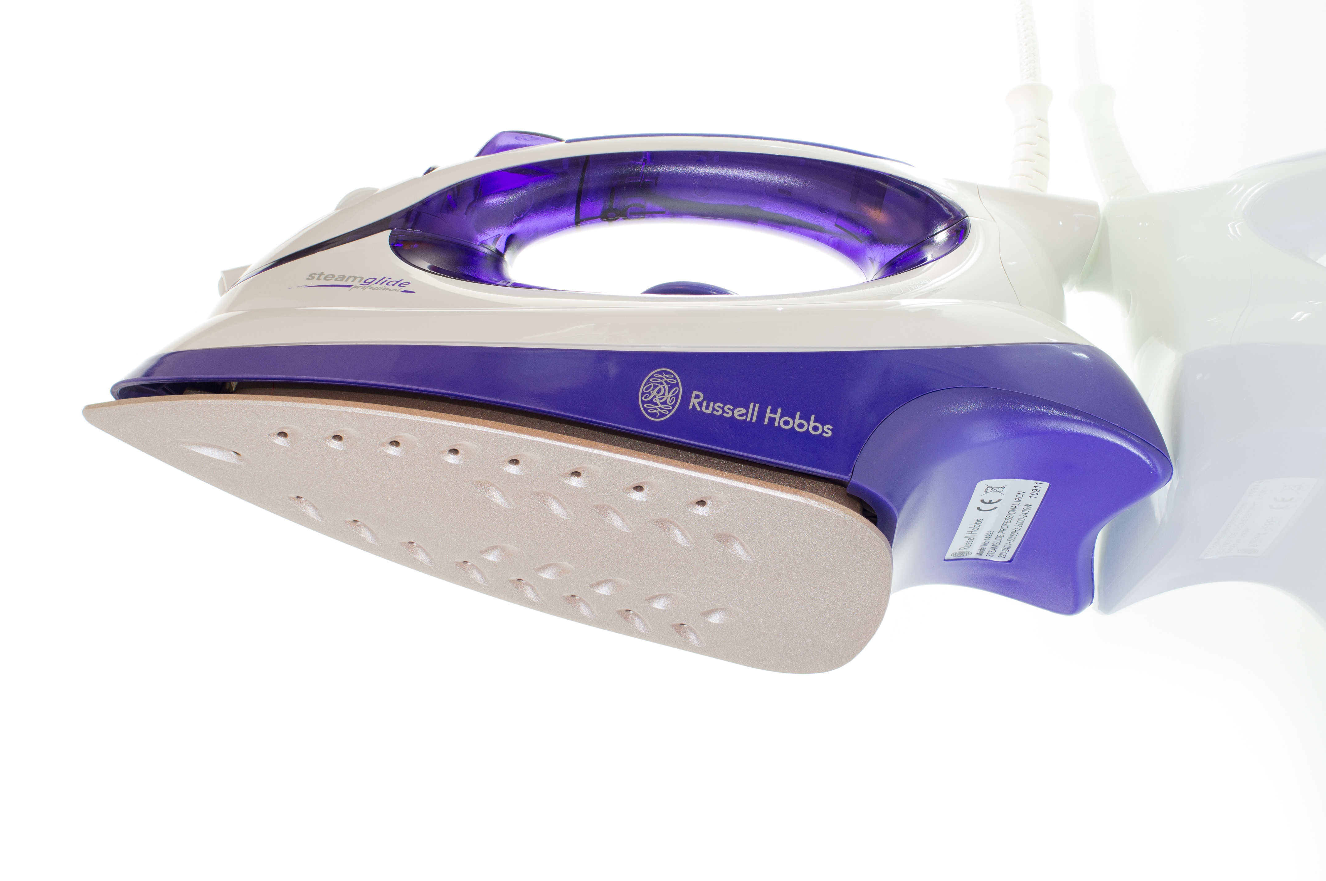 A modern electric steam iron made by Russell Hobbs. Product-shot set on glass with a white background.